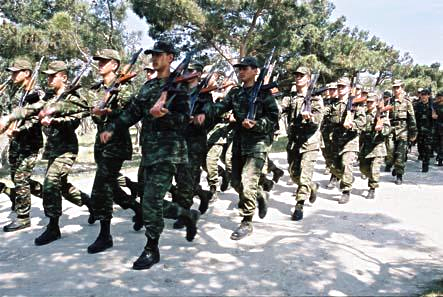 Picture from: [1], exact location: [2] uploaded by owner.